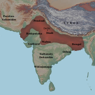 Szer Szah Suri Empire in the greatest extend (1545).